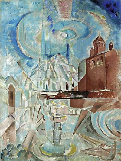 Fantasy. Canvas, oil. The painting is located in the Samara Art Museum, Russia.